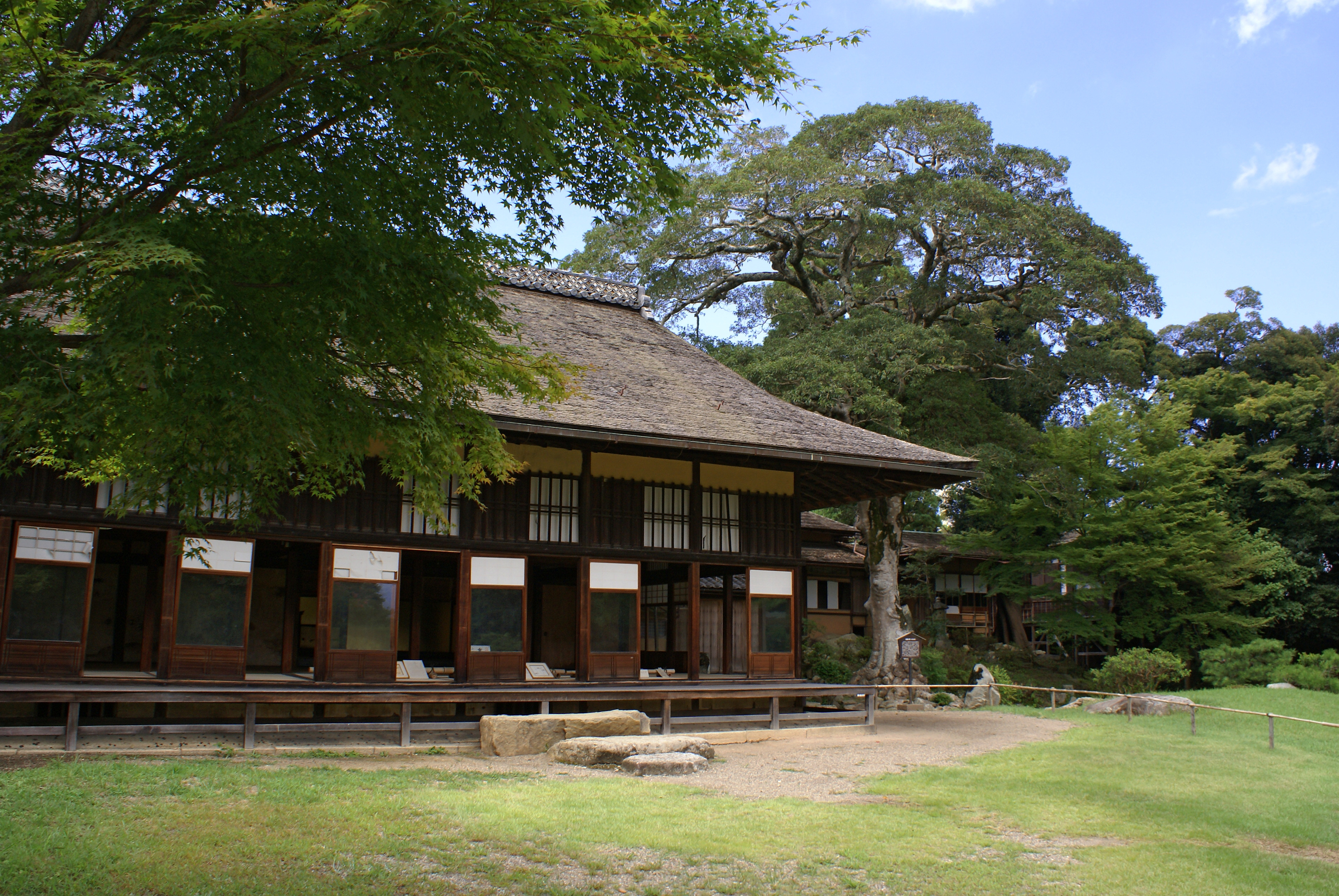 Rakurakuen in Hikone, Shiga prefecture, Japan